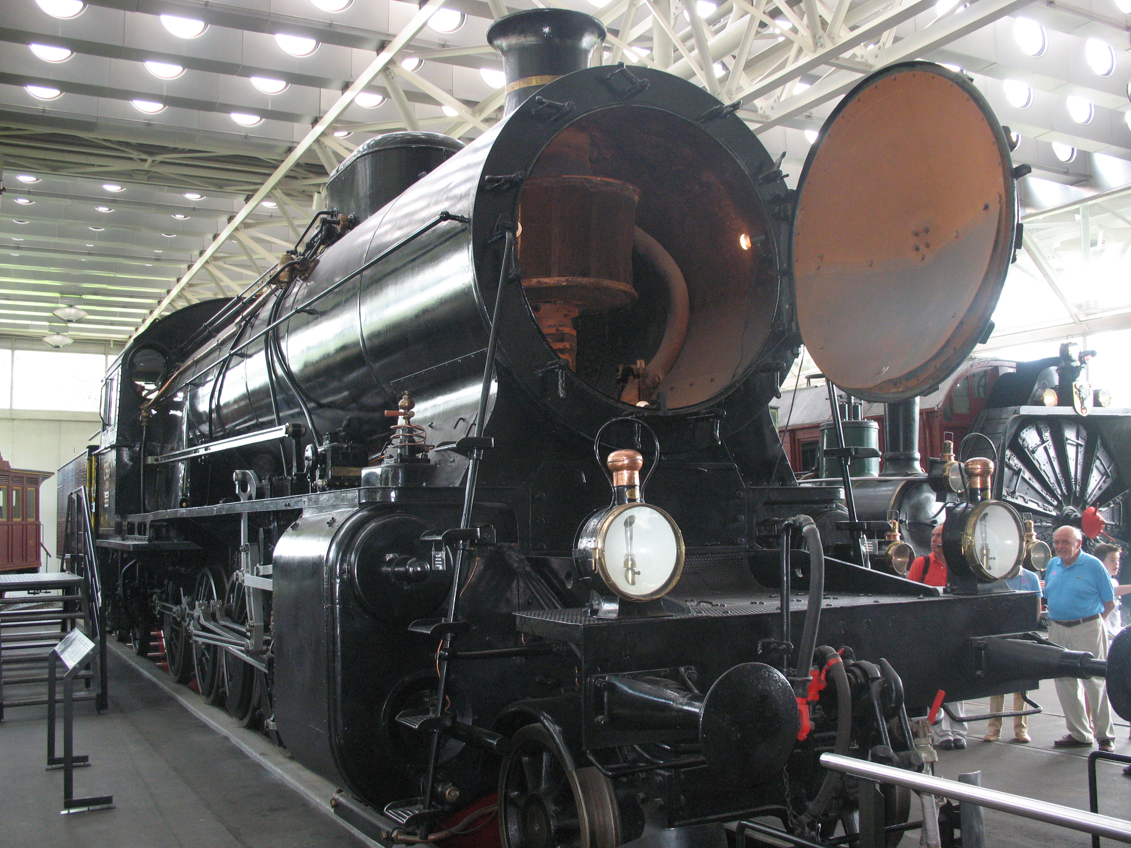 SBB-CFF-FFS smokebox in the Swiss Transport Museum, Luzern, Switzerland